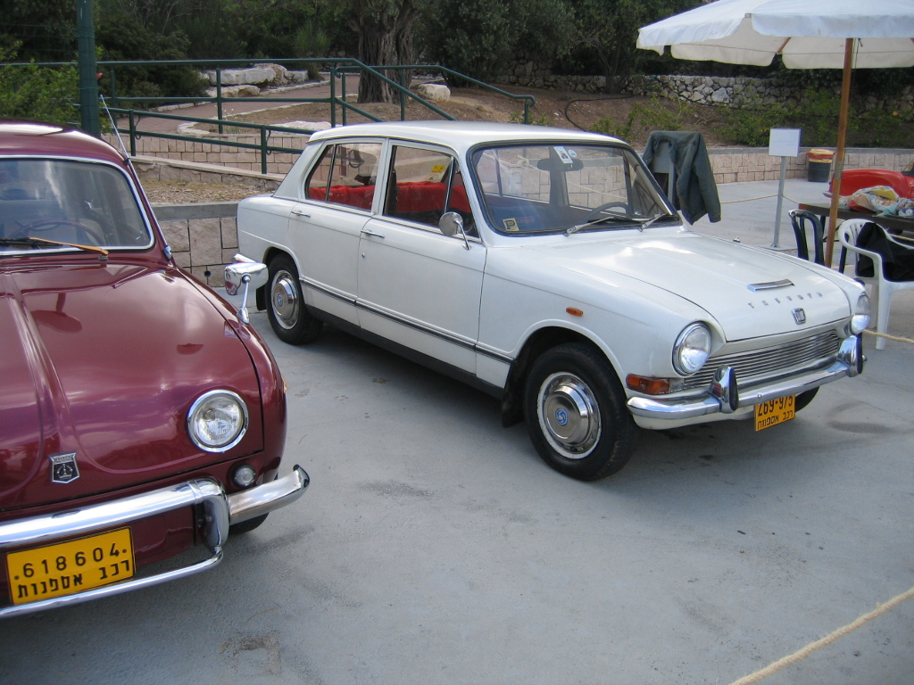 Triumph 1300 at car show in Israel, April 2006.